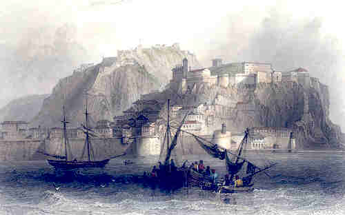 View of Nafplion (Napoli Di Romania)